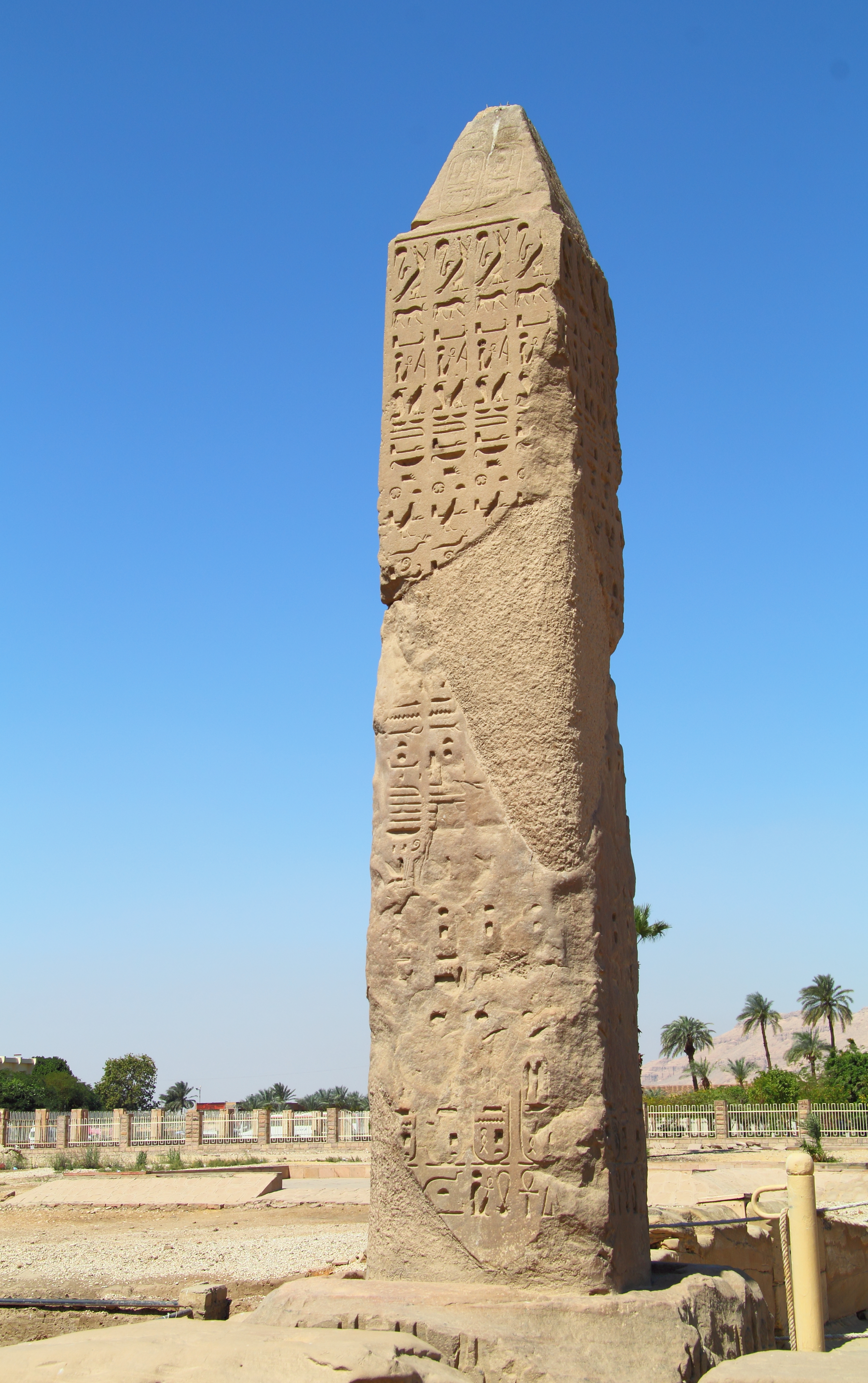 Luxor, Egypt: Karnak temple, obelisk by king Seti II